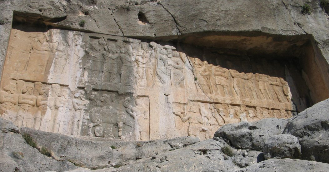 Rock relief from Bishapour, Iran April 2006 by Pentocelo